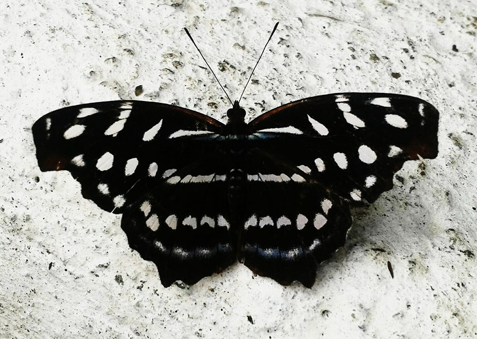 Female of the neotropical butterfly Myscelia orsis (Drury, 1782). Photograph taken in Botanical Garden of São Paulo, São Paulo city - São Paulo (SP) estate, Brazil (July 9, 2018).